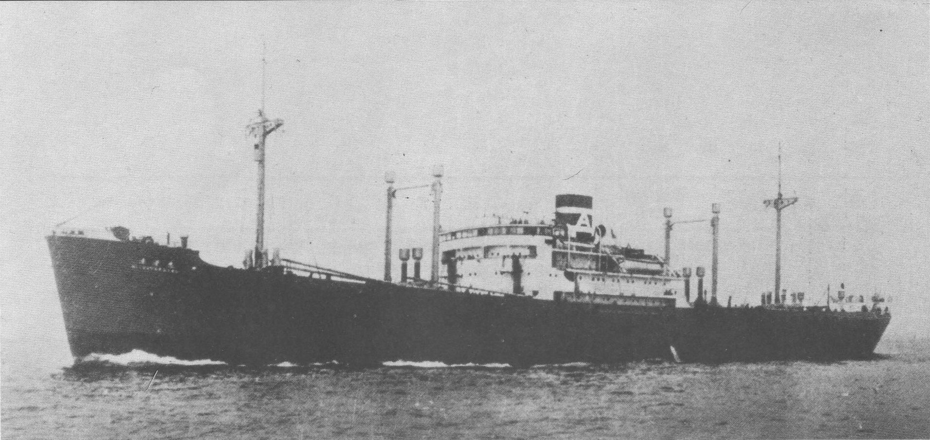 Kokusai Line "Kiyosumi Maru"